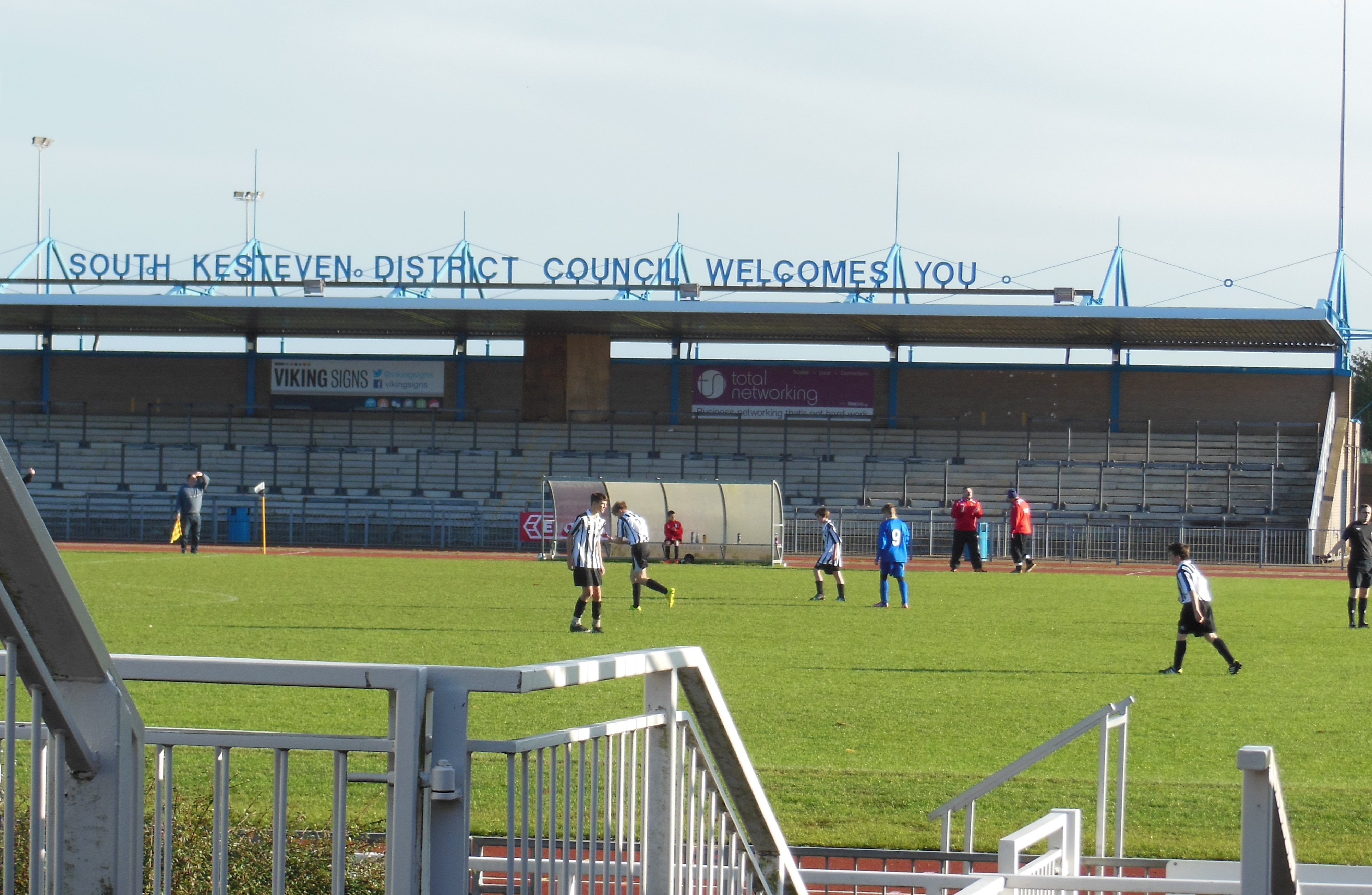 Partial view of the home stadium of Grantham Town F.C..